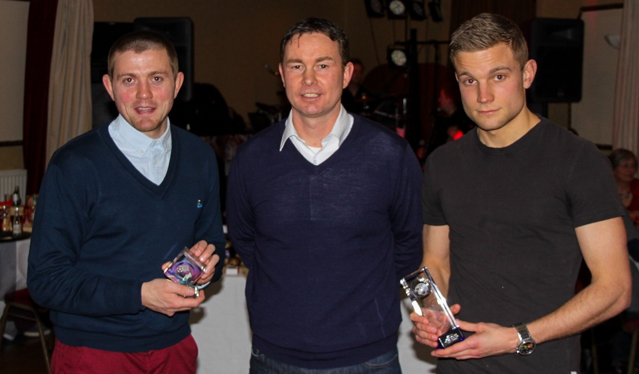 Alex Cooper after winning lancashire with liverpool reservesa